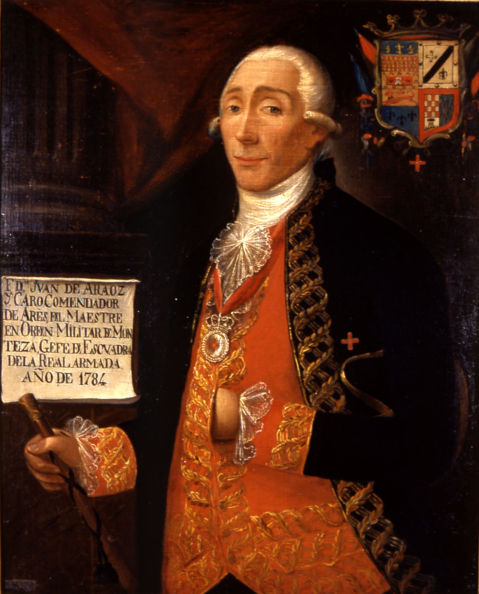 Portrait of the Admiral of the Spanish Navy Juan de Araoz y Caro (1728-1806)